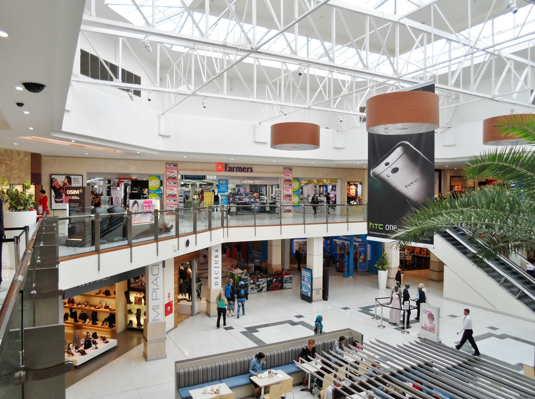 Interior of Westfield St Lukes shopping mall in Auckland, New Zealand in 2014.